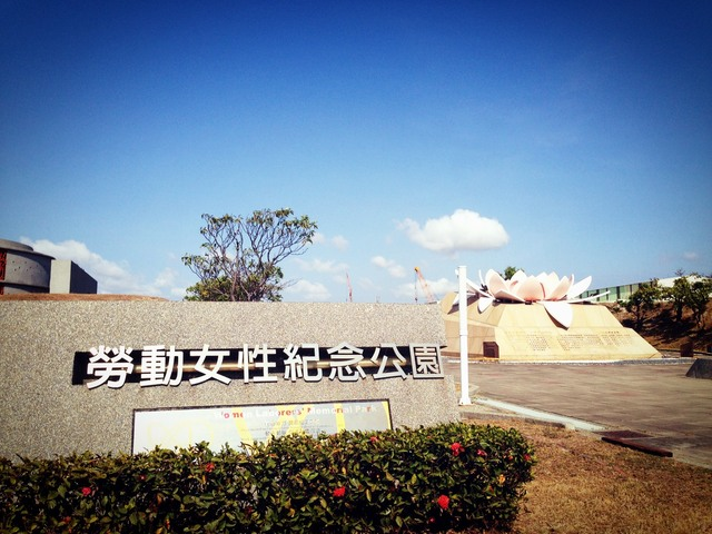 In the front of the image is the entrance placard to the park. In the background is the lotus shrine with the engraved names of the 25 women who died in the ferry accident.